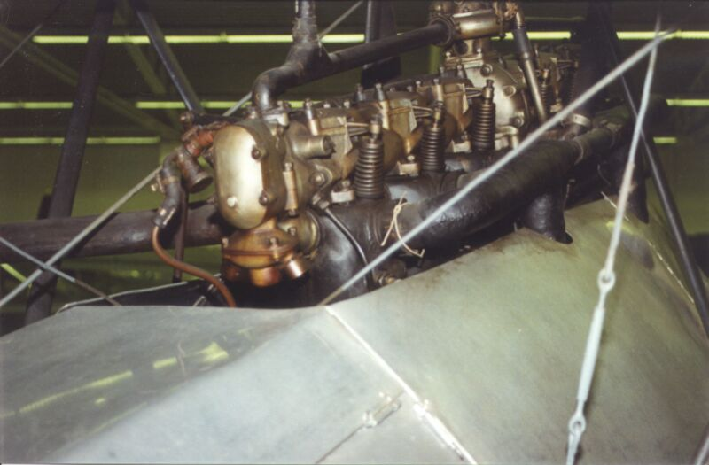 Hiero 6 liquid-cooled six cylinder inline engine of an Austro-Hungarian Phönix J.1 fighter biplane of WW1 in a Swedish museum